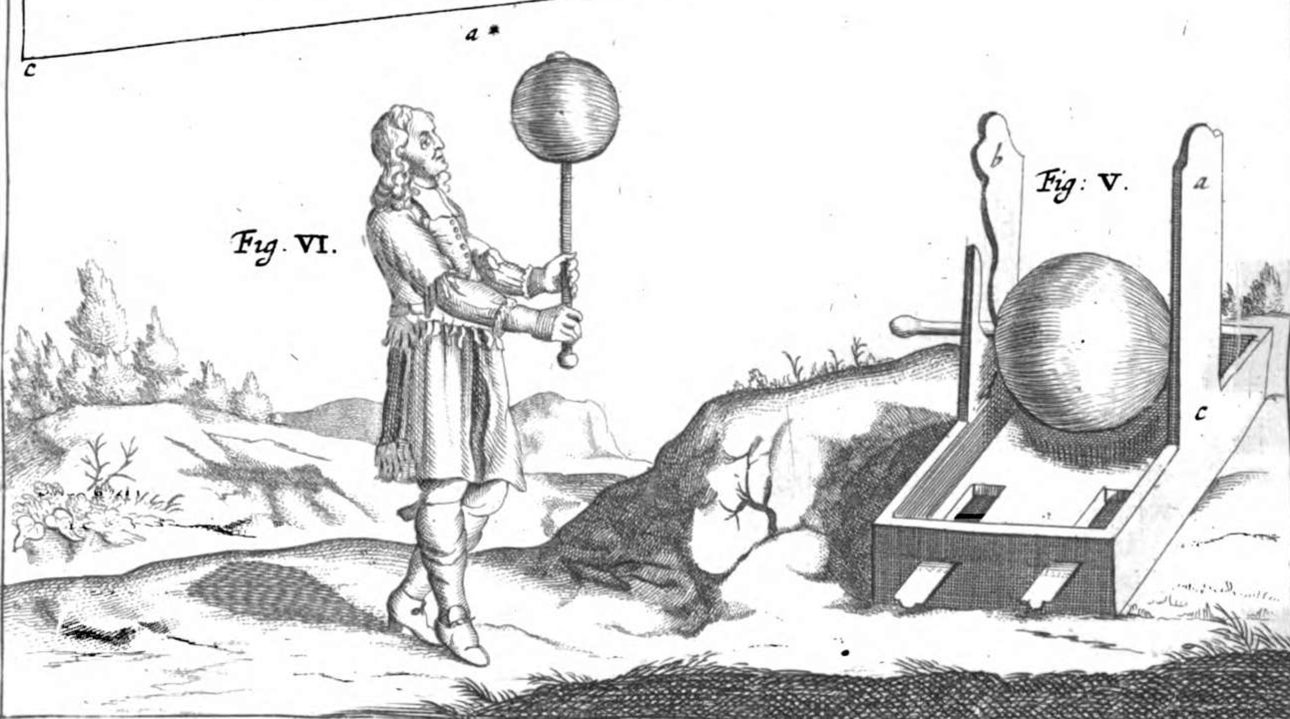 Figure V and VI from Ottonis De Guericke Experimenta Nova (ut vocantur) Magdeburgica De Vacuo Spatio, Amstelodami: Janssonius, 1672, p. 148, showing Guericke's experiments with the sulfur globe.